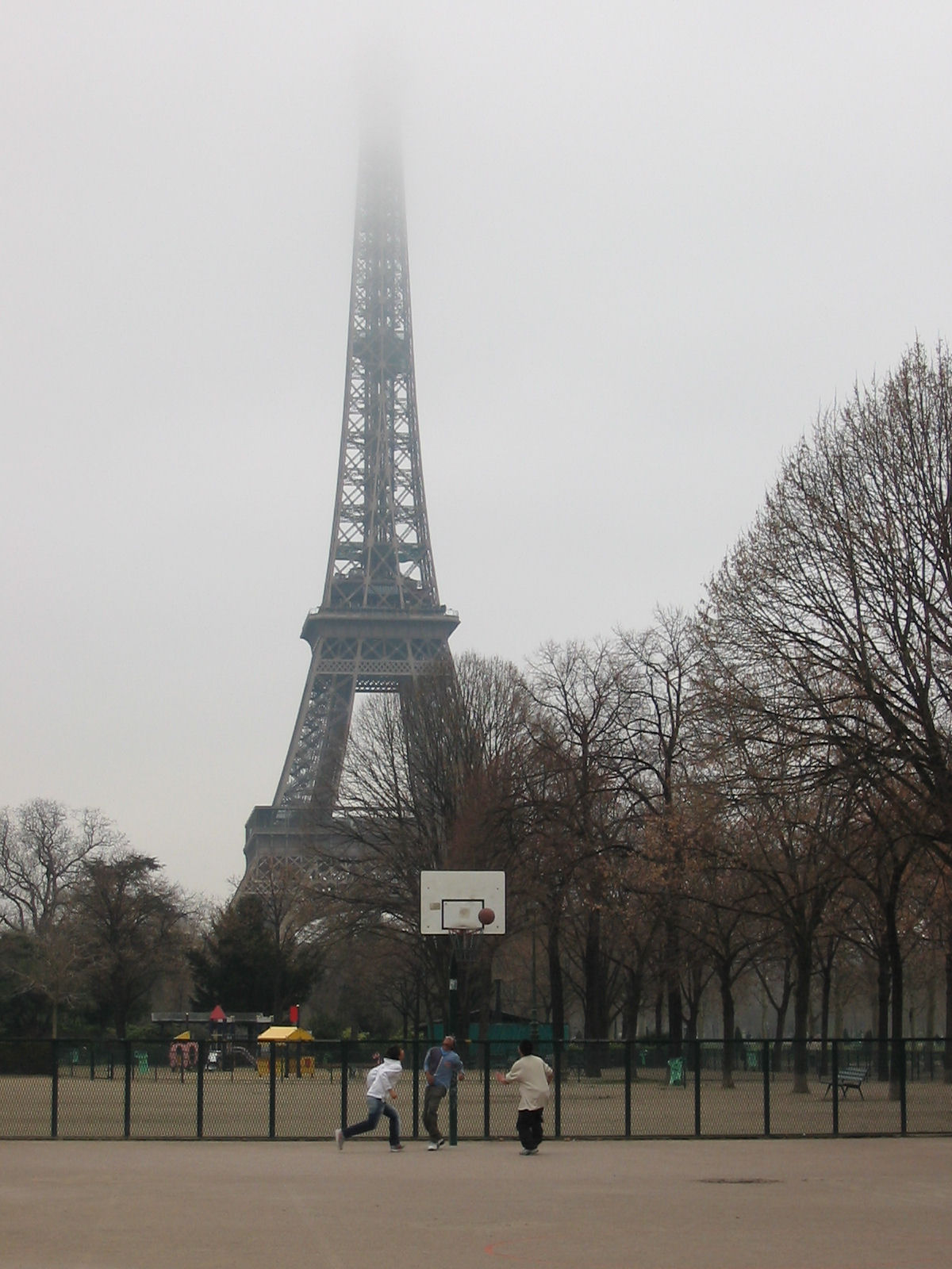 Street basketball in Paris